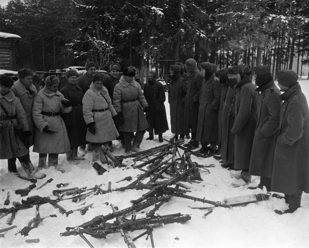 “Nazis surrender”. Remains of a defeated Nazi unit surrender.